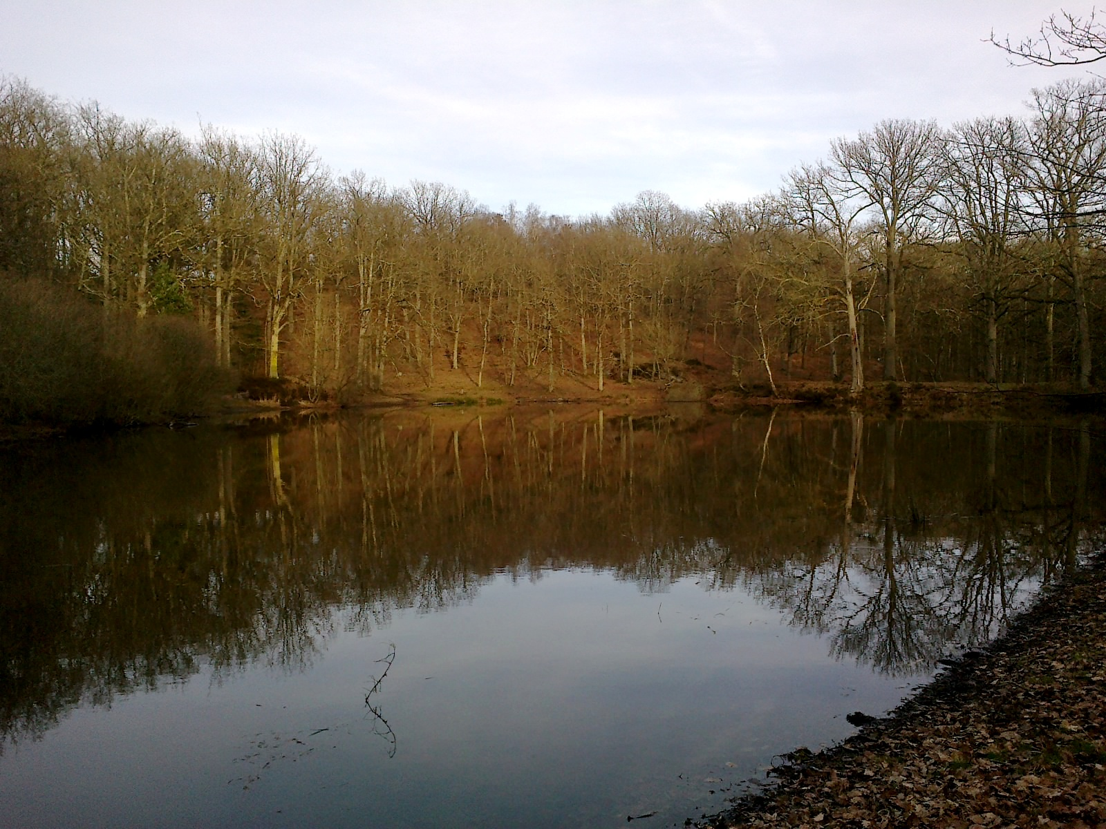 Yvelines Poigny-La-Foret Petit Etang Neuf